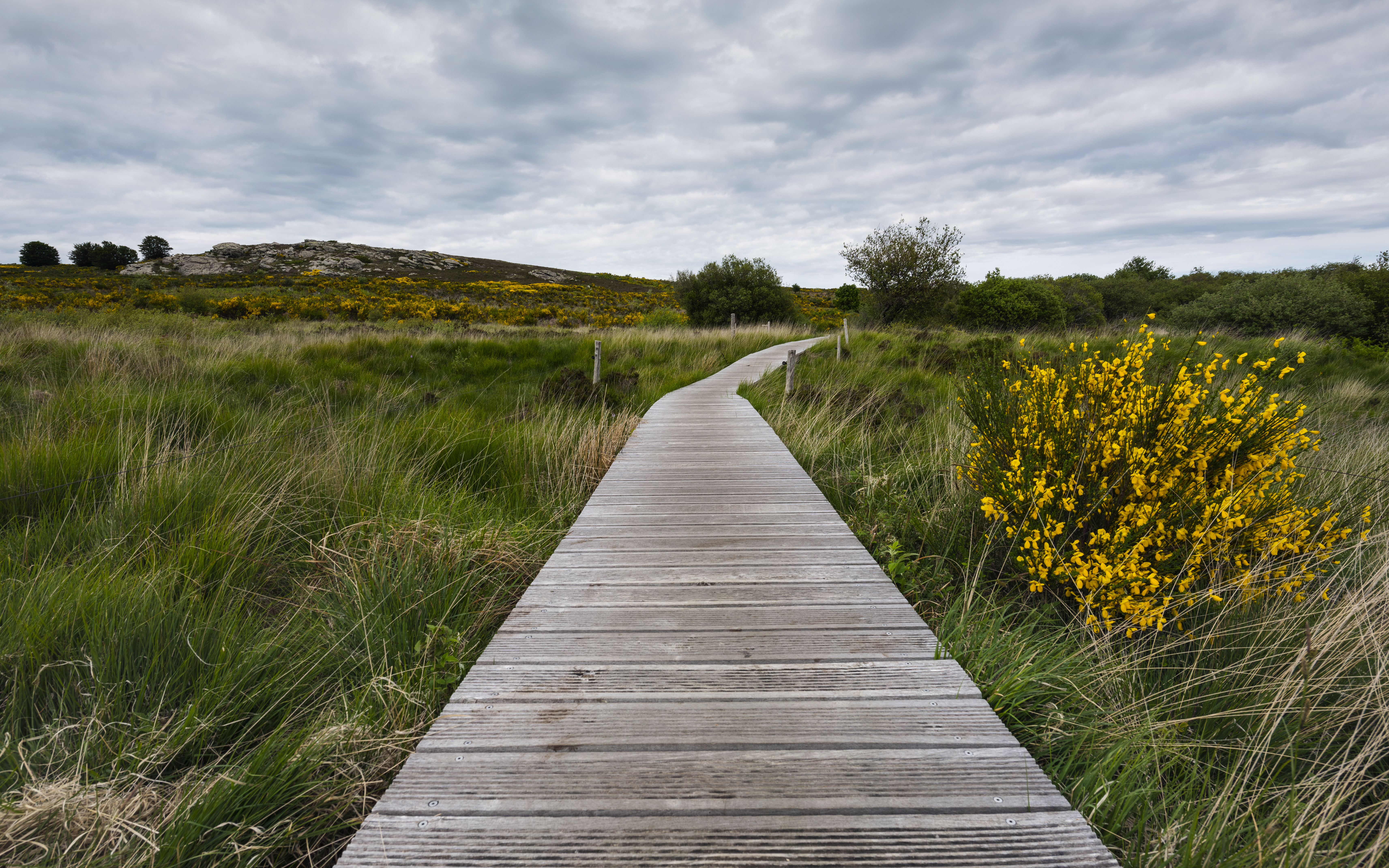 The walkway above the mire in the heath of the Caroux plateau. Haut-Languedoc Regional Nature Park. Rosis, Hérault, France